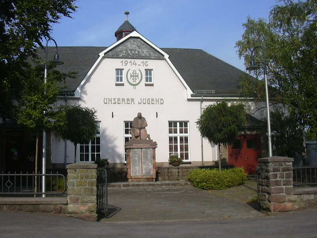 Vlatten (Heimbach) Ehrenmal own work papa1234 2006-09-16